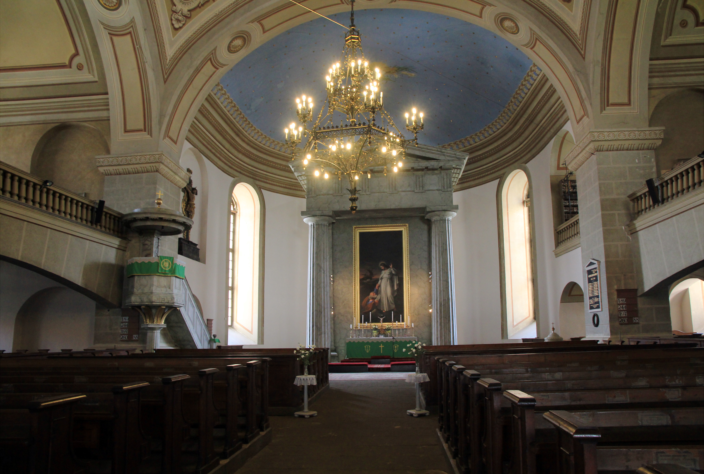 Interior of Evangelical Lutheran Church in Levoča, Slovakia